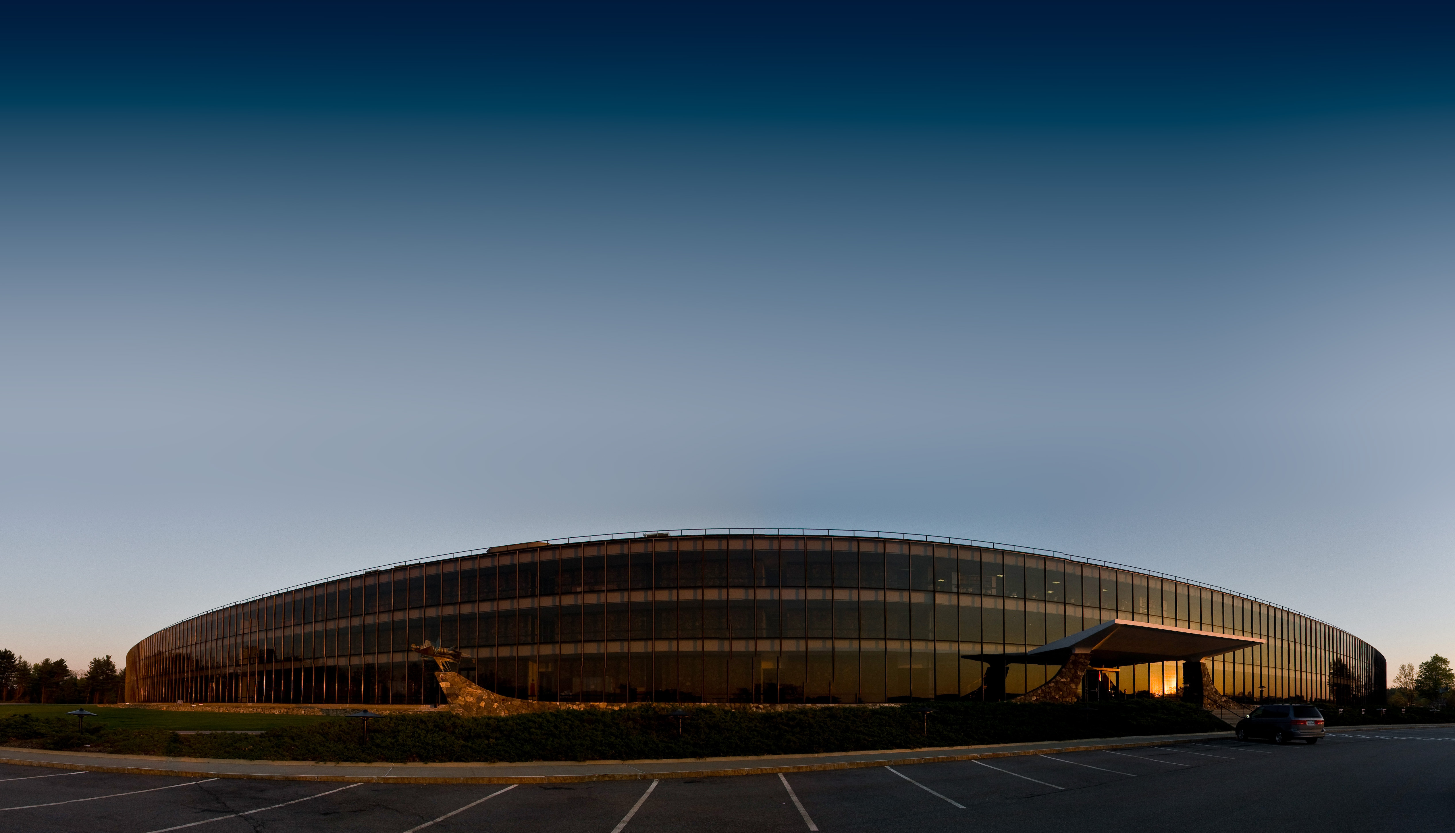 IBM's Thomas J. Watson Research Center in Yorktown Heights, NY Stitched with "